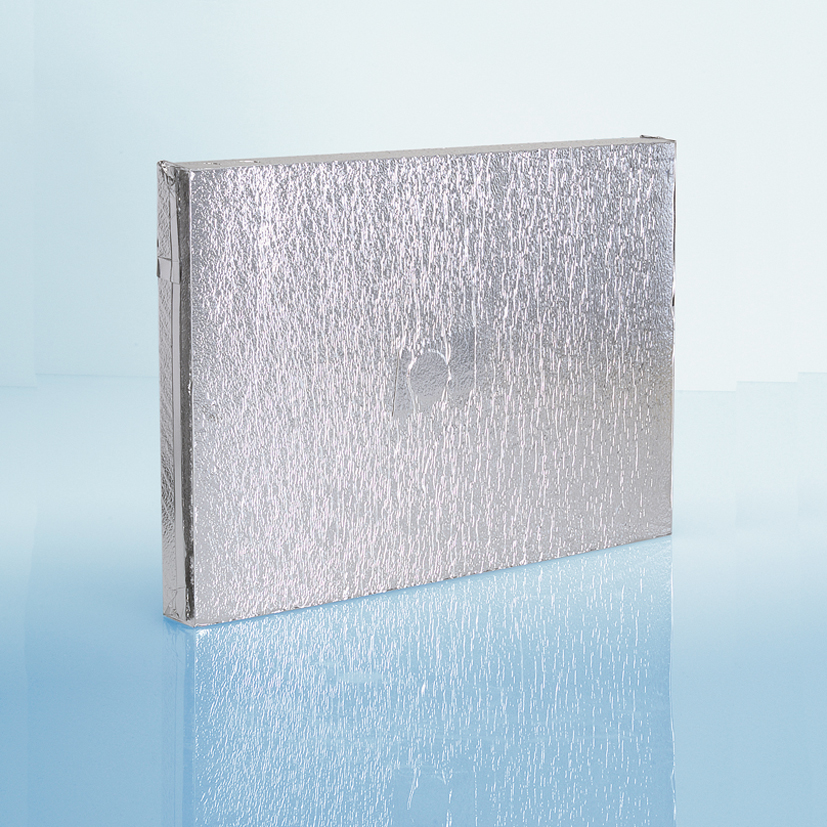 Vacuum Insulation Panel from va-Q-tec AG (va-Q-pur)